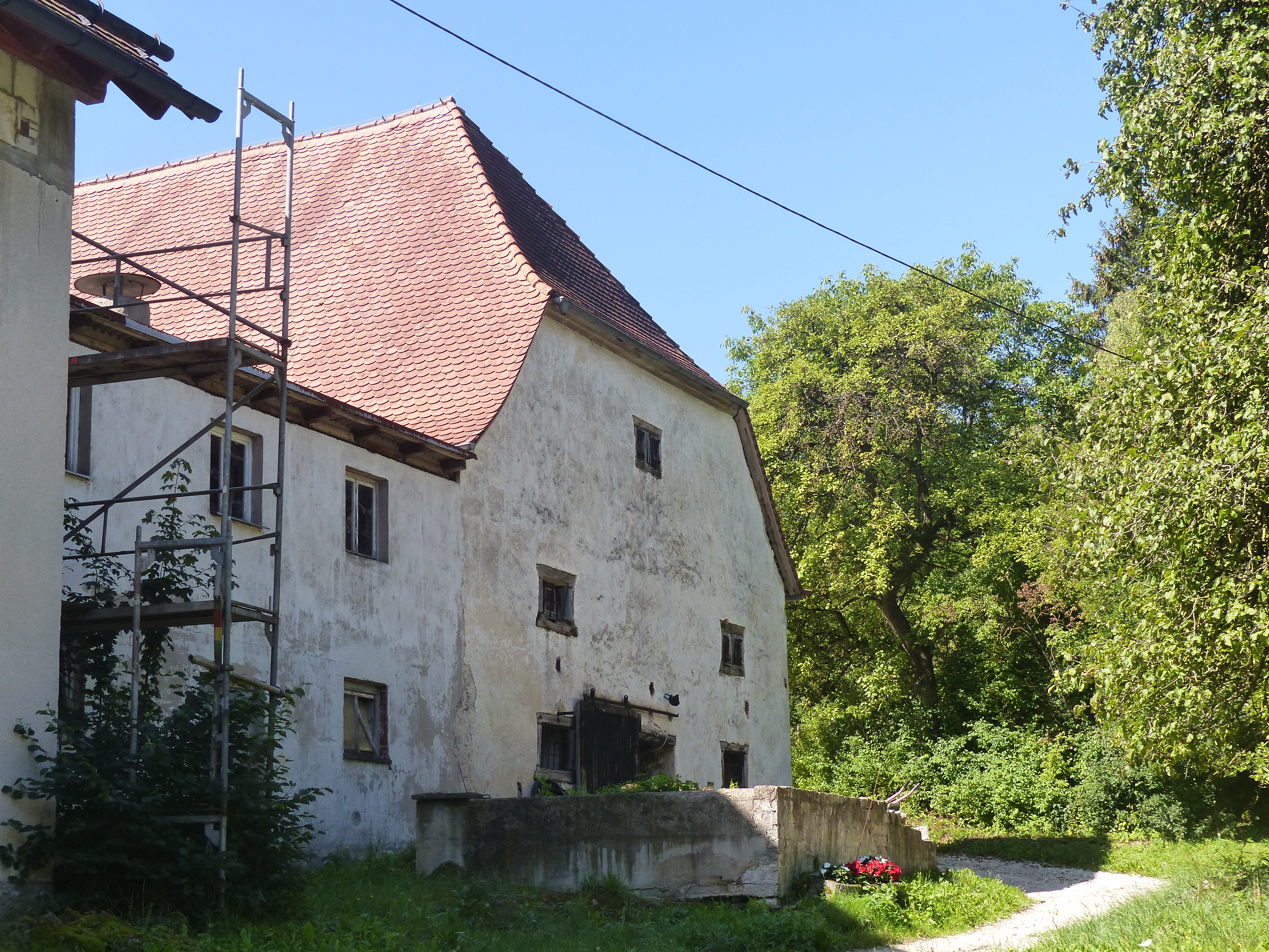 A tithe barn in the hamlet Dietersberg, a district of the municipality of Egloffstein.